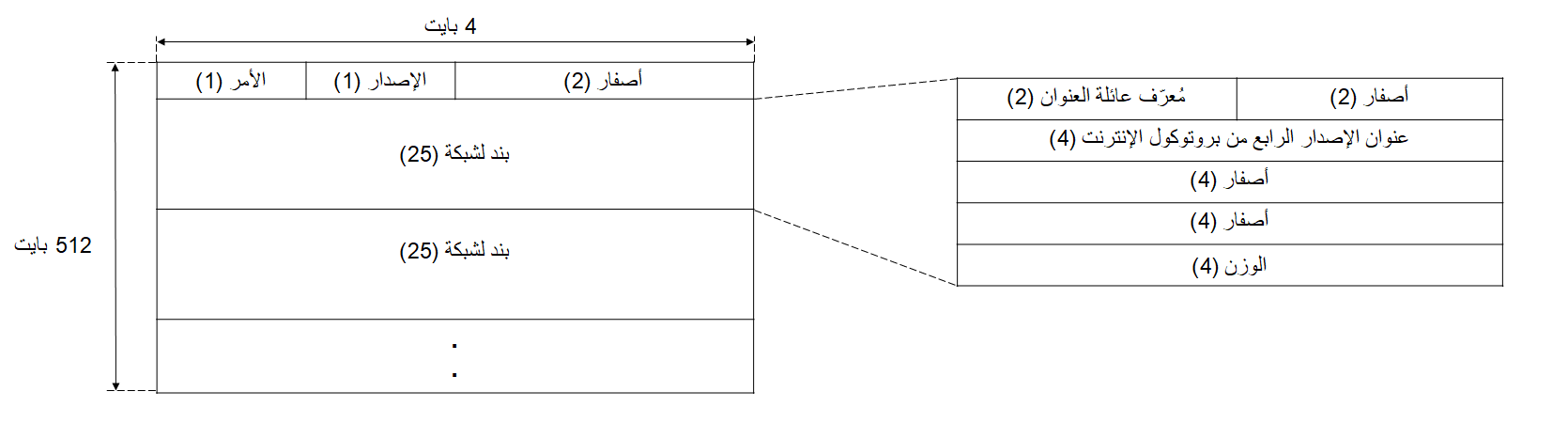 Routing Information Protocol (RIPv1) Header.